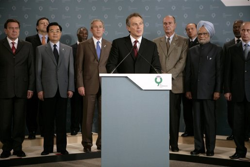 President George W. Bush and fellow G8 leaders stand behind Britain's Prime Minister Tony Blair Thursday, July 7, 2005, as he addressed the media in Gleneagles regarding the terrorist attacks that occured in London earlier in the day.